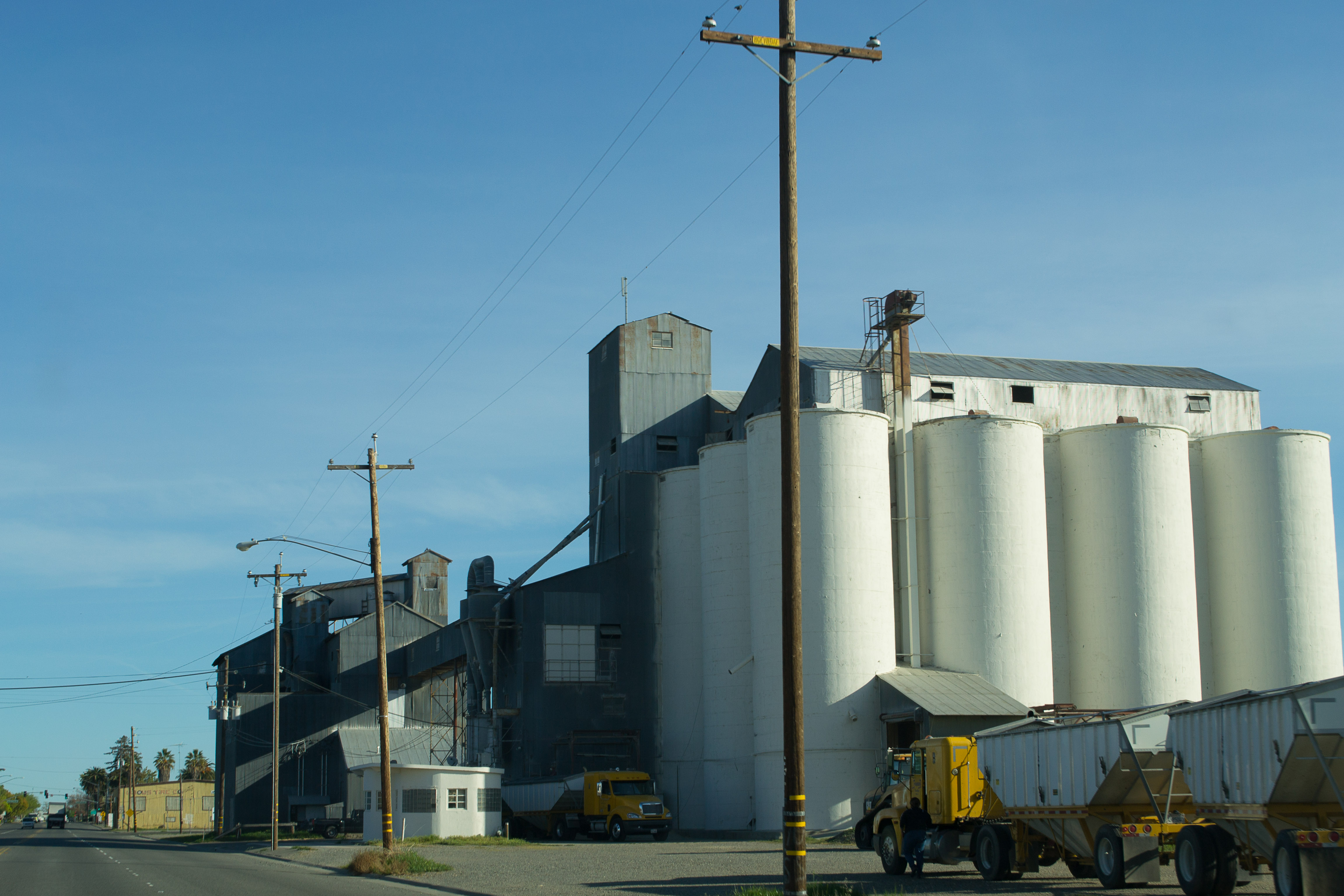 A grain elevator in Willows, California